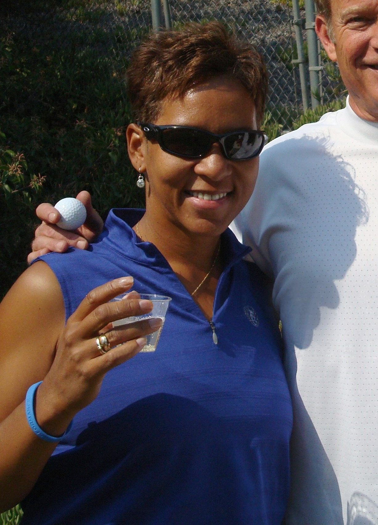 Tennis player Katrina Adams